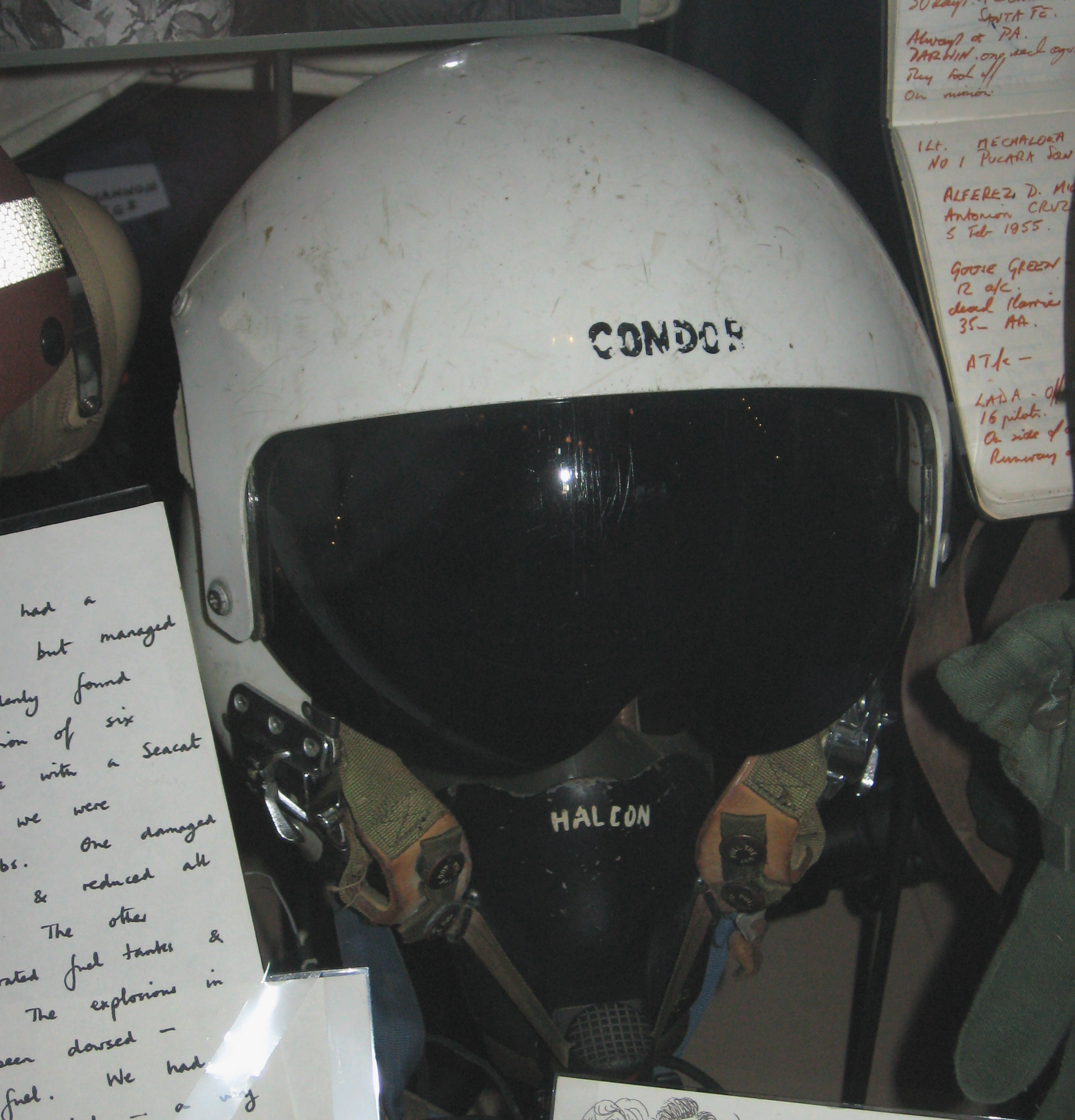 Helmet of Argentine Pucura pilot shot down by small arms fire from 2 PARA, during the Falklands War. Taken in the Imperial War Museum